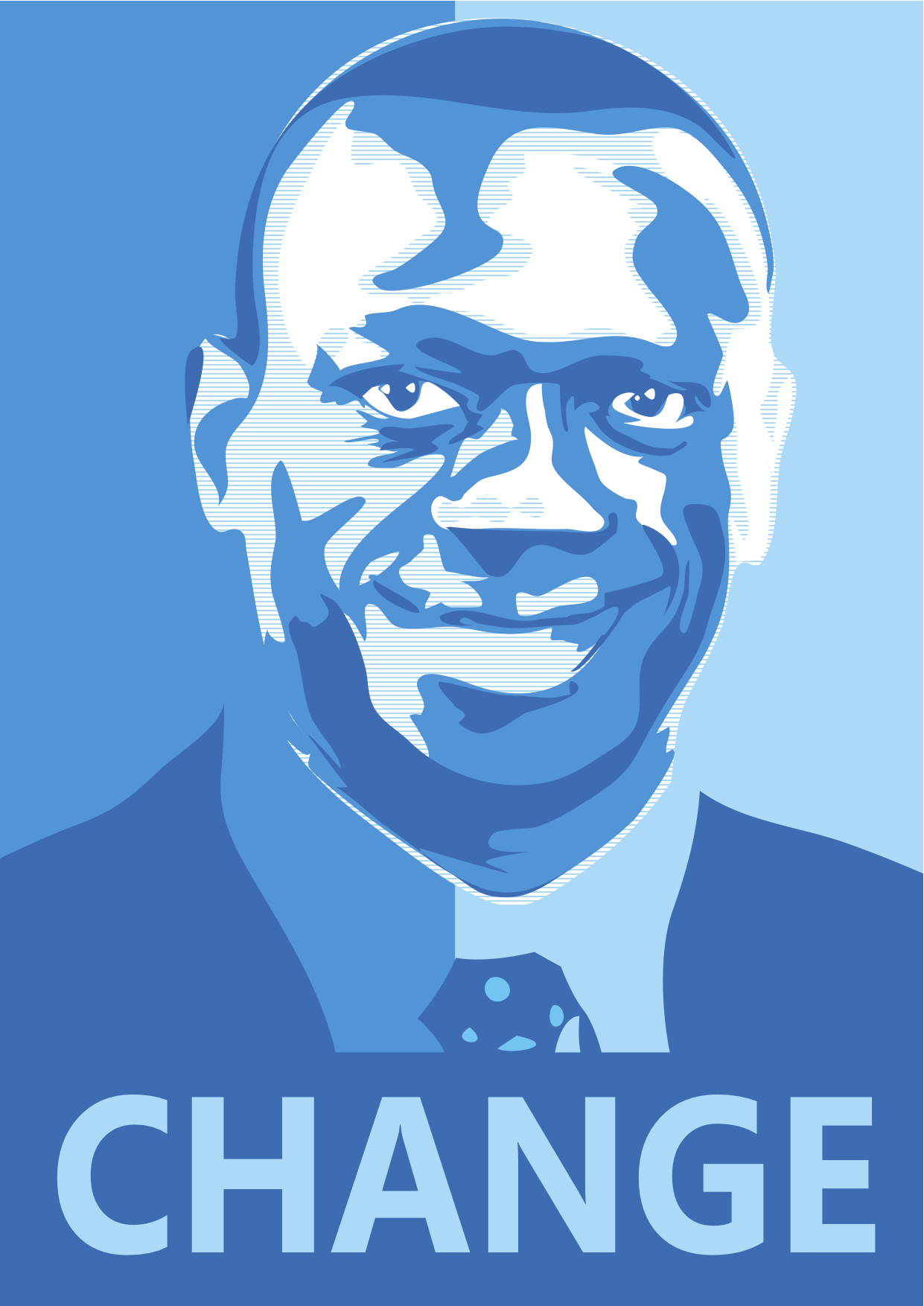 Campaign poster for IPC and FDC presidential candidate Dr. Kizza Besigye. Designed by Samson Mwaka for the February 2011 issue of the Kampala Dispatch Magazine.